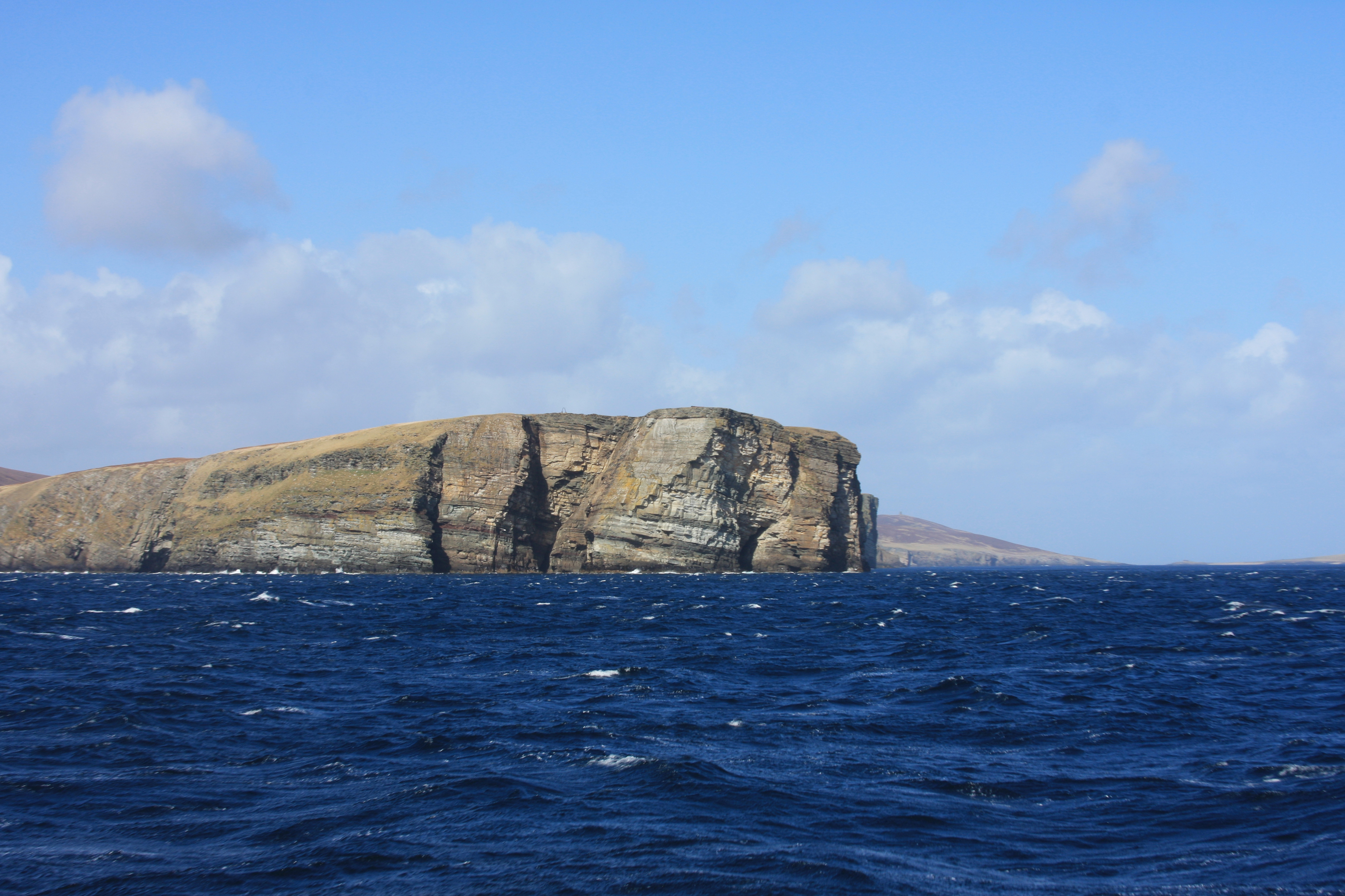 View of the Shetland Islands coast from a sail-boat. Picture taken on the 24th of april in 2013.